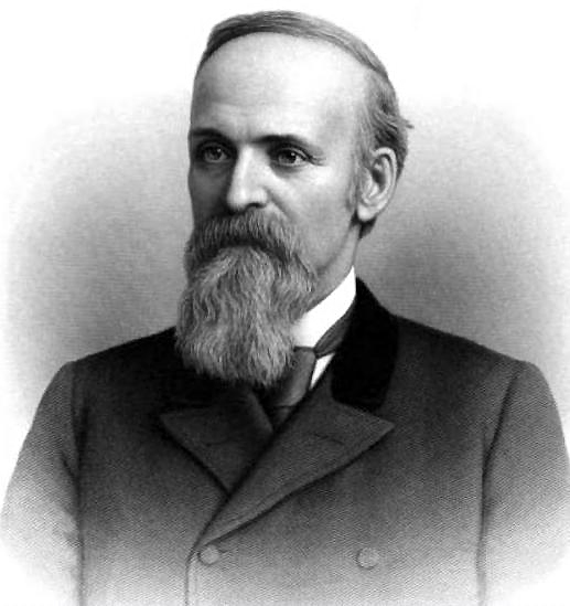 John Gilfillan, US Representative from Minnesota